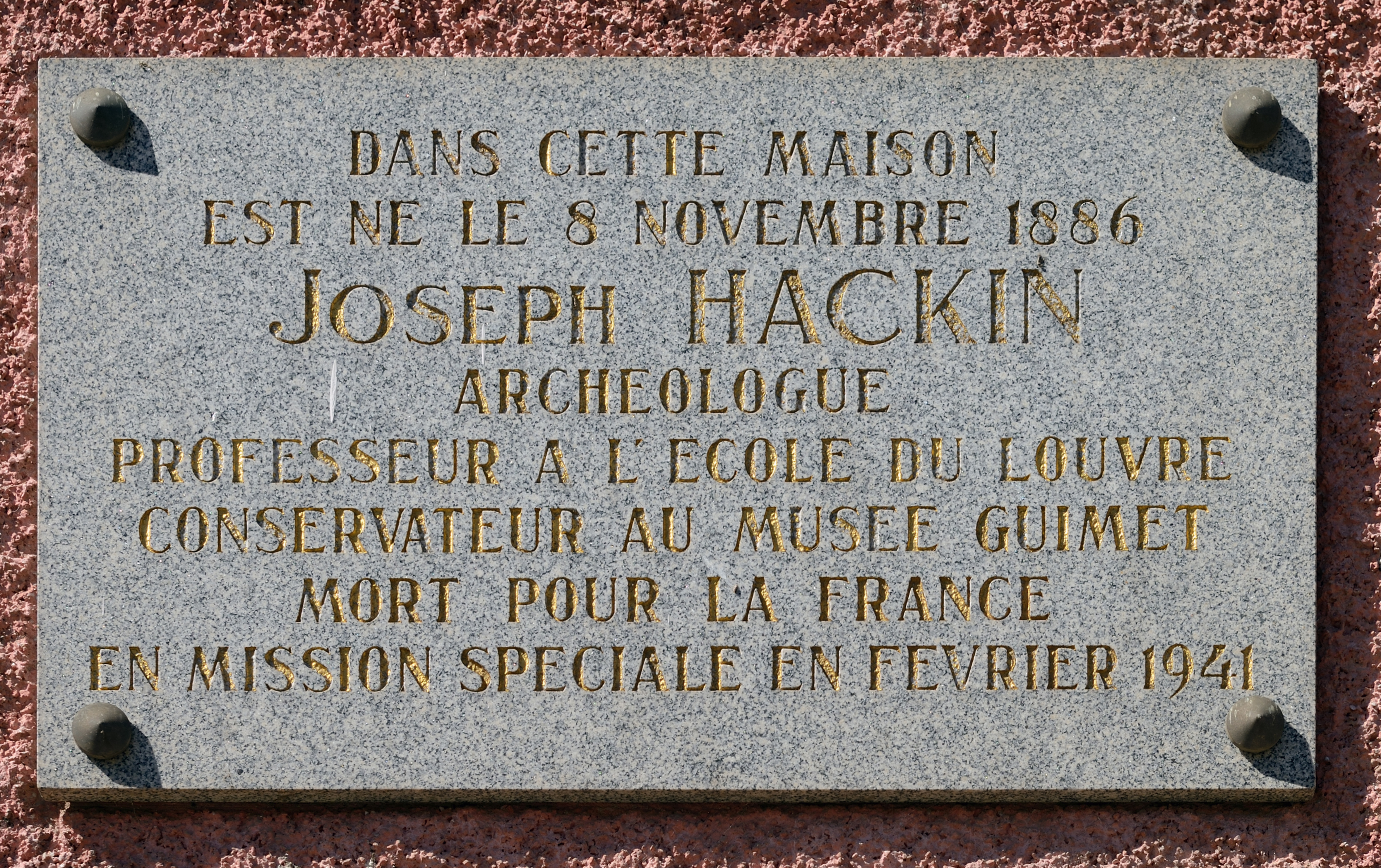 Plaque on the birth house of Joseph Hackin (1886-1941) in Boevange-Attert, Luxembourg.